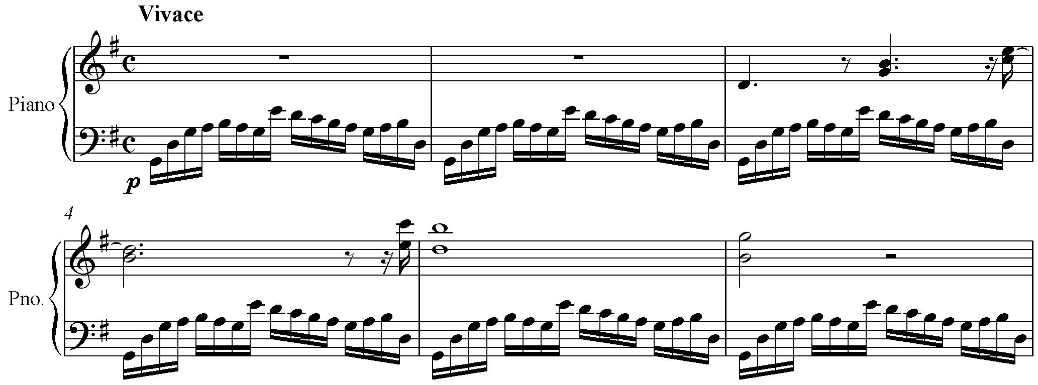 6 first bars of Chopins prelude 3 op. 28